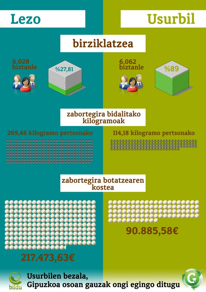 Comparison of waste management systems between Lezo and Usurbil, in Gipuzkoa.